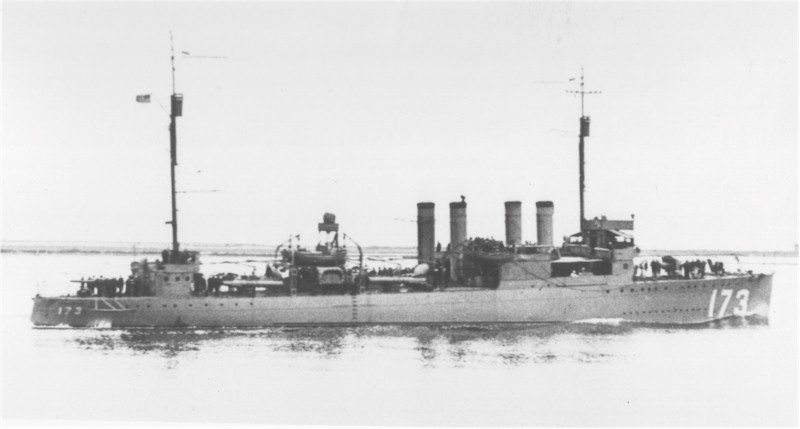 The U.S. Navy destroyer USS Sproston (DD-173) underway, circa 1919-1920.